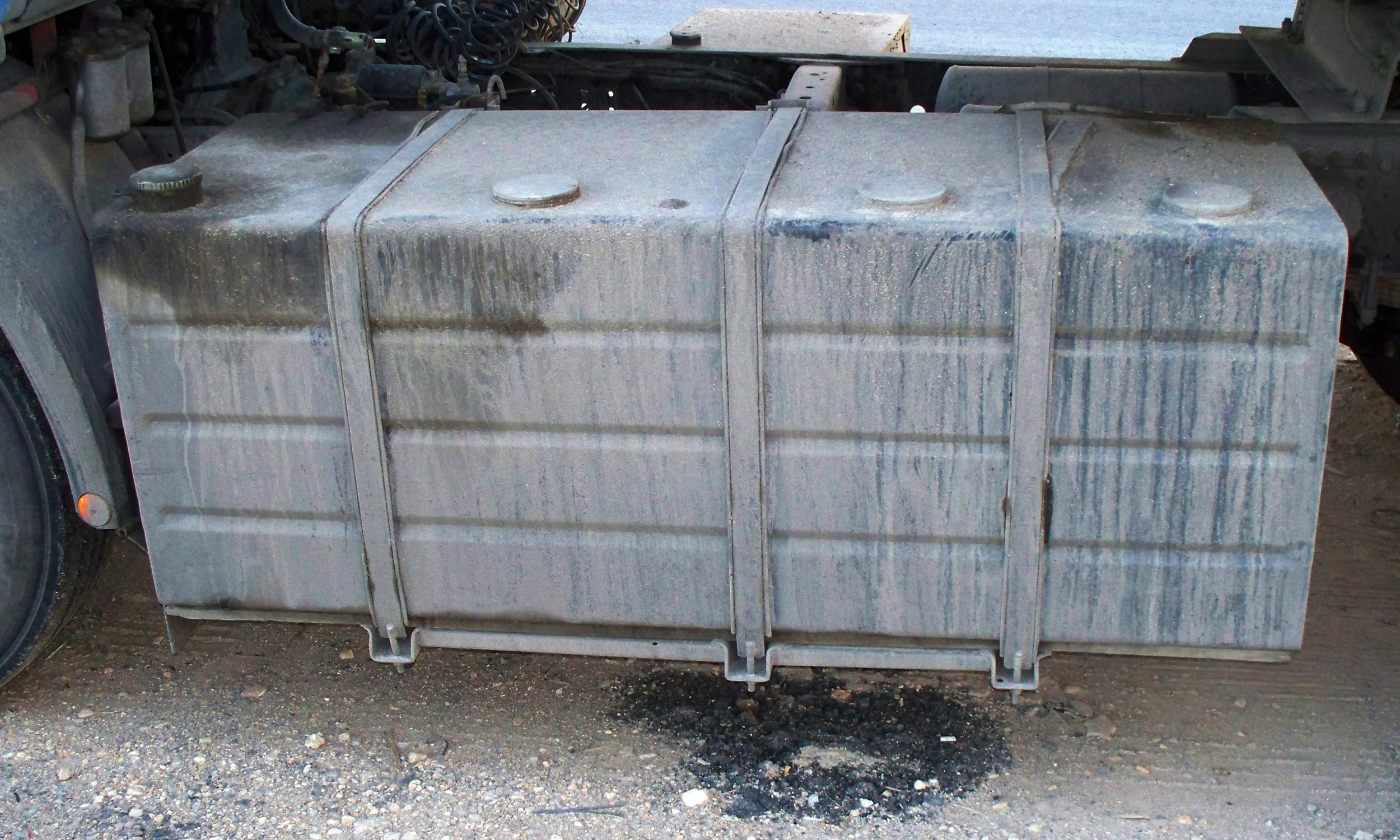 Fuel tank of a MAN-truck.